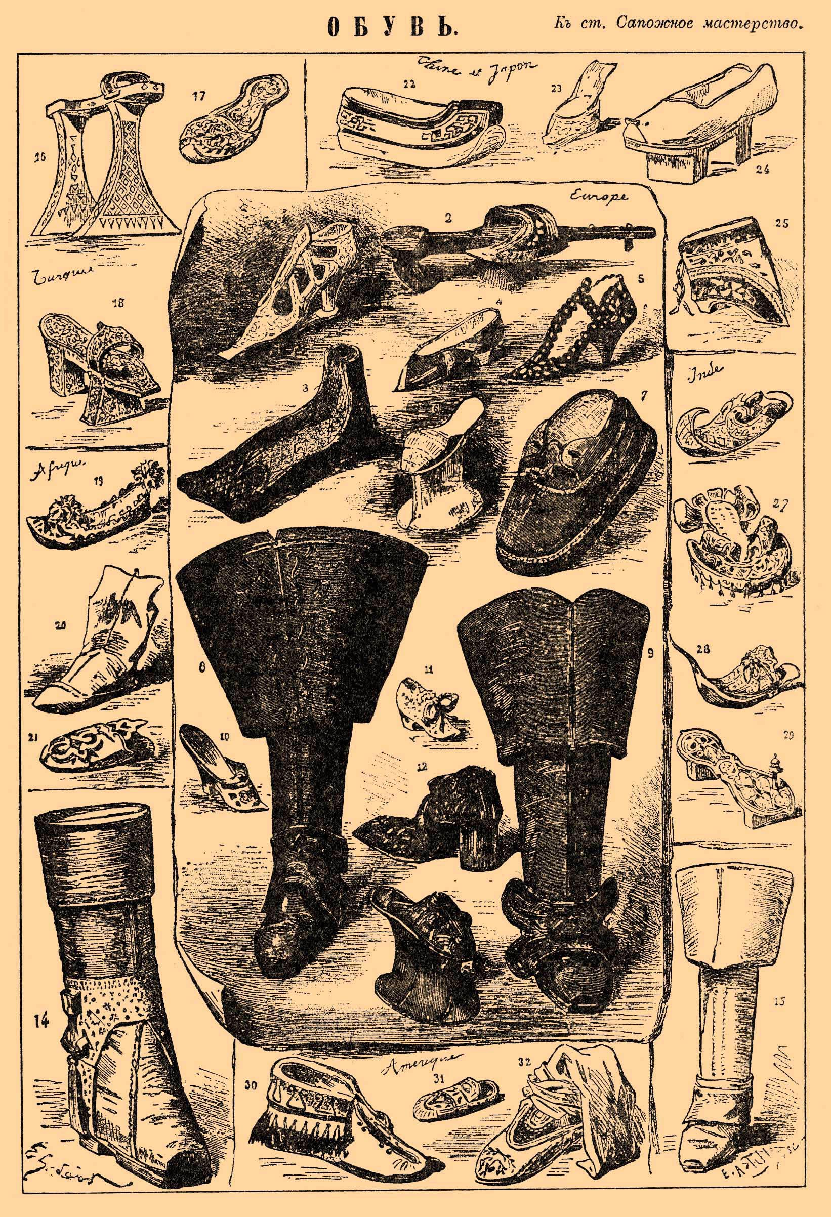 Illustration from Brockhaus and Efron Encyclopedic Dictionary(1890—1907)